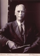 Warren Shields, M.D. 1898-1980